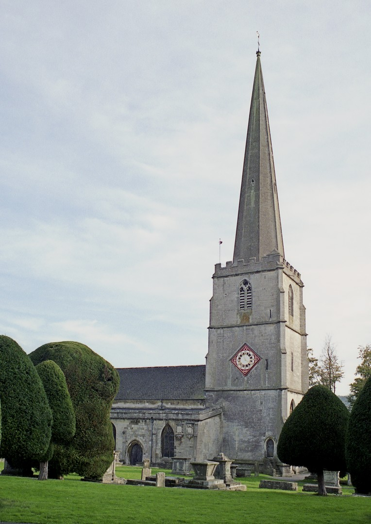 Church of St Mary